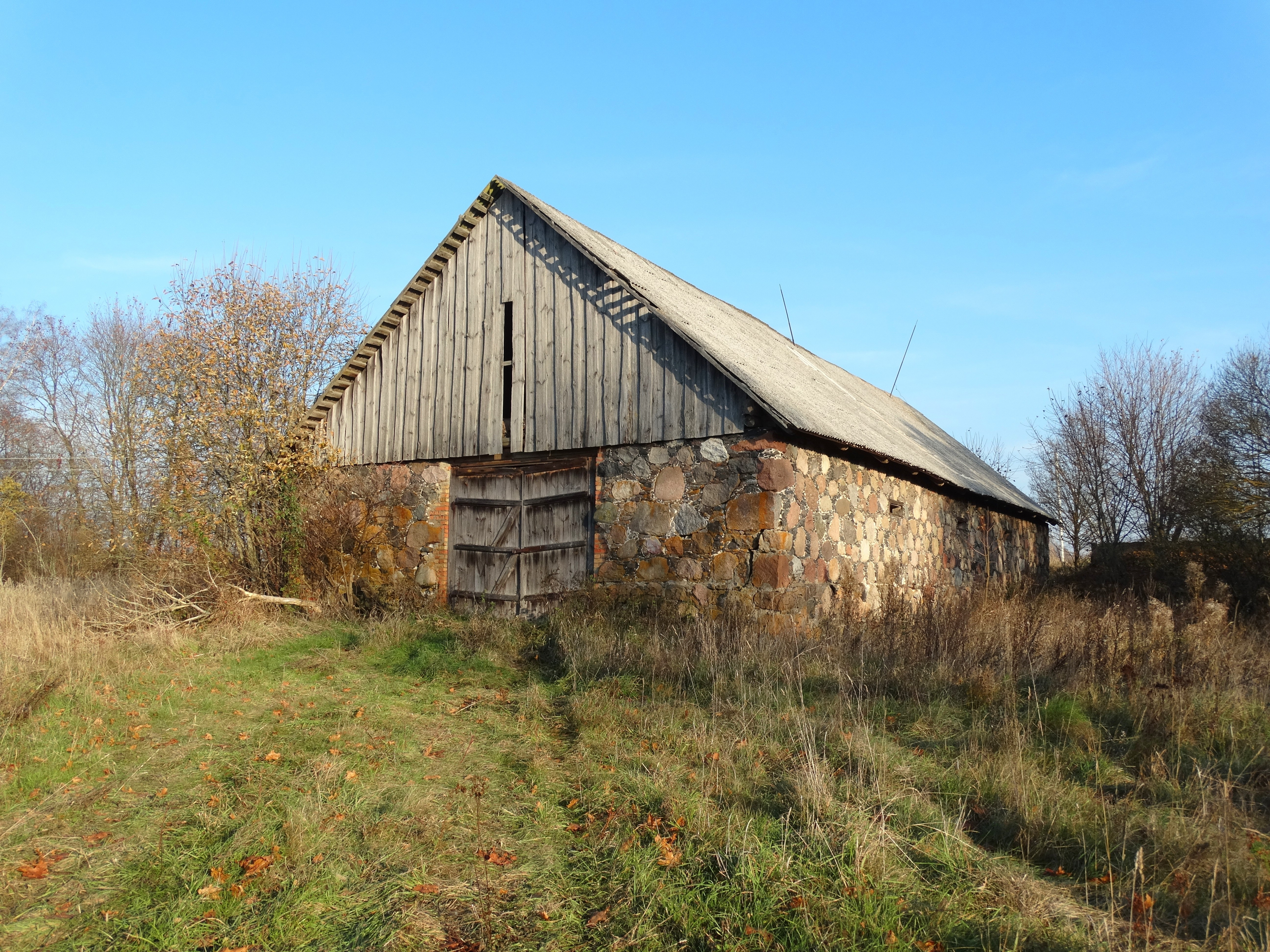 Former manor, Narkyčiai, Zarasai district, Lithuania